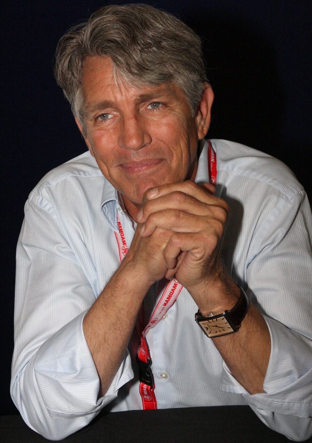 Eric Roberts in Sidney, Australia, in Jun2 2012.